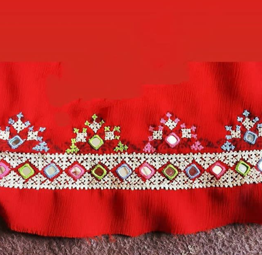 balochi doozi